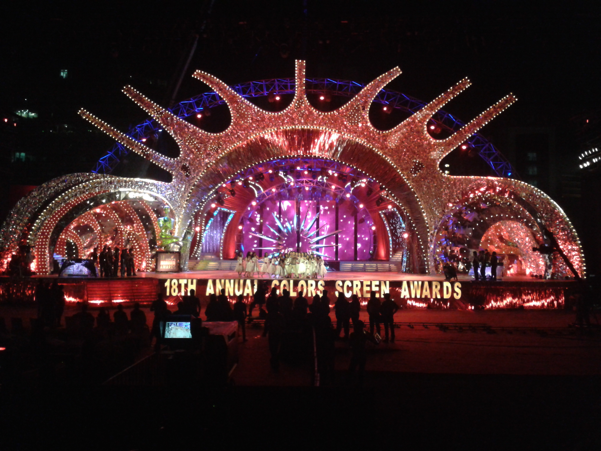 18th Annual Screen Awards Set